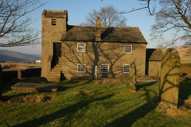 Church of St John the Baptist (also called the Jenkin Chapel), Saltersford, Cheshire, seen from the south